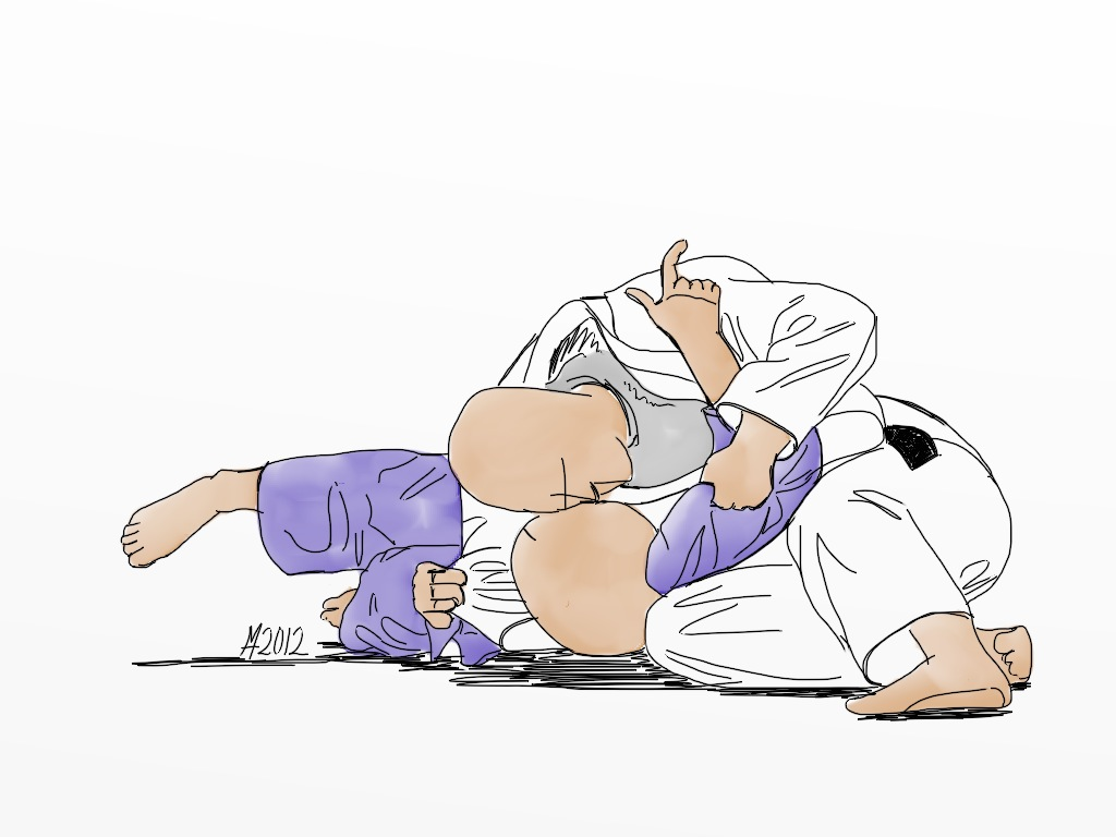 Illustration of the judo hold-down hon-kesa-gatame, or scarf-hold, where you trap the opponents neck and arm in order to hold the opponent firmly on his back.